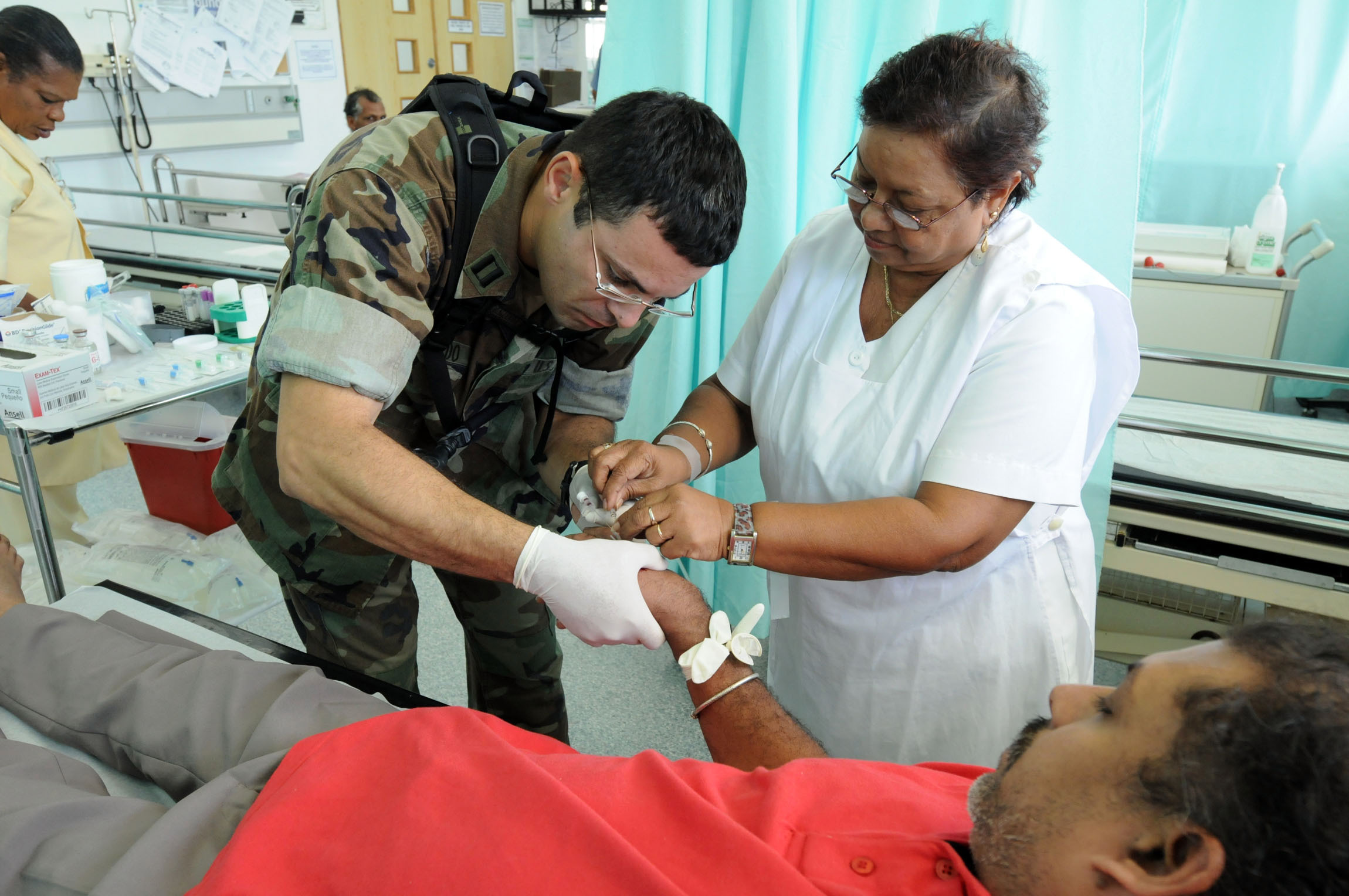 Lt. Hector Acevedo, a physician embarked aboard the amphibious assault ship USS Kearsarge, works with a Trinidadian nurse to give a patient an intravenous line at a local health facility during the humanitarian/civic assistance mission Continuing Promise 2008. Kearsarge is the primary platform for the Caribbean phase of CP, an equal-partnership mission involving the United States, Canada, the Netherlands, Brazil, Nicaragua, Colombia, Dominican Republic, Trinidad and Tobago and Guyana.